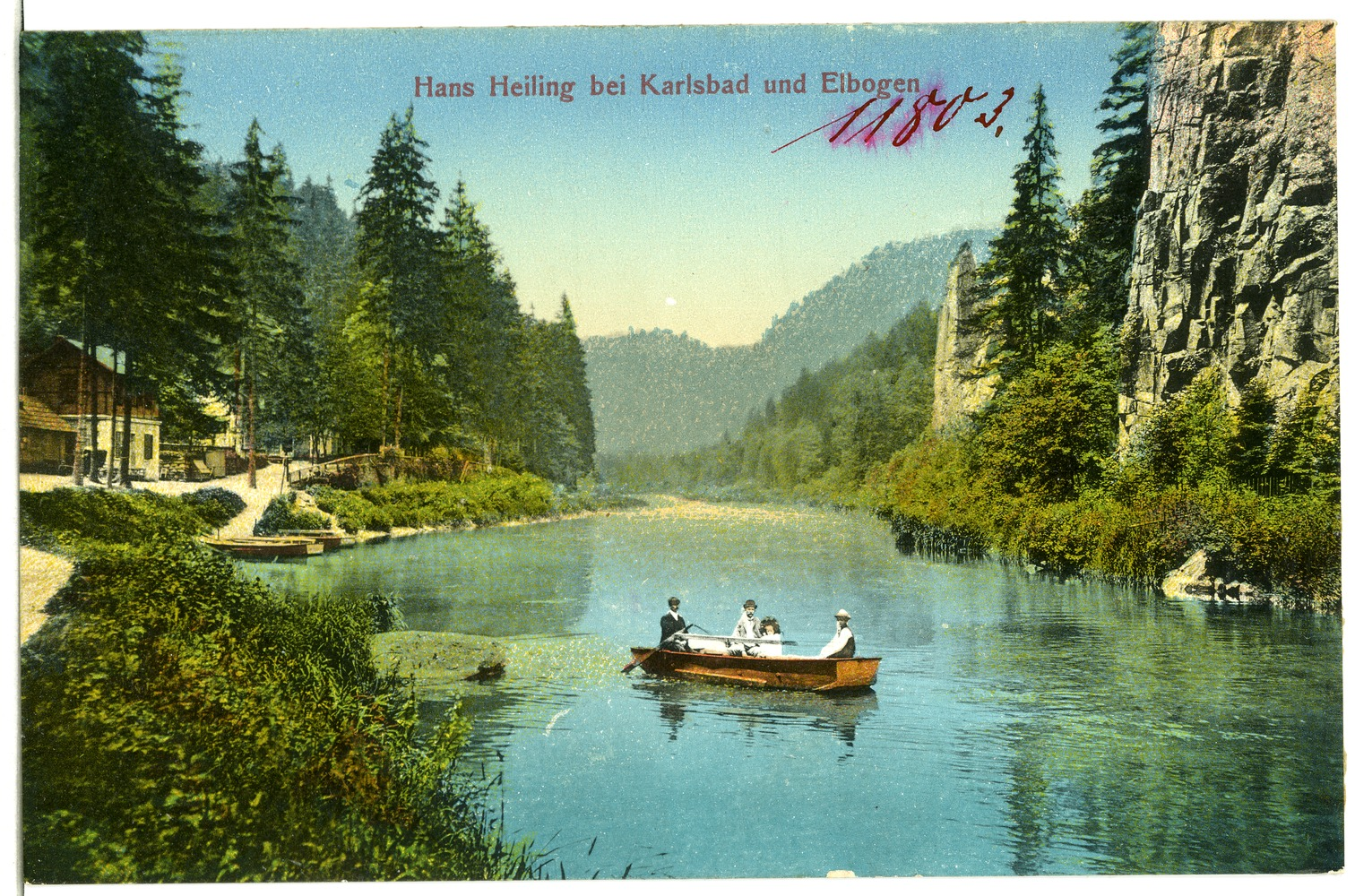 This postcard is from publisher Brück & Sohn in Meißen ( This postcard has a unique number 11803 and is available in a higher resolution at the publisher. This images was uploaded in a cooperation project between Wikipedians and the publisher.